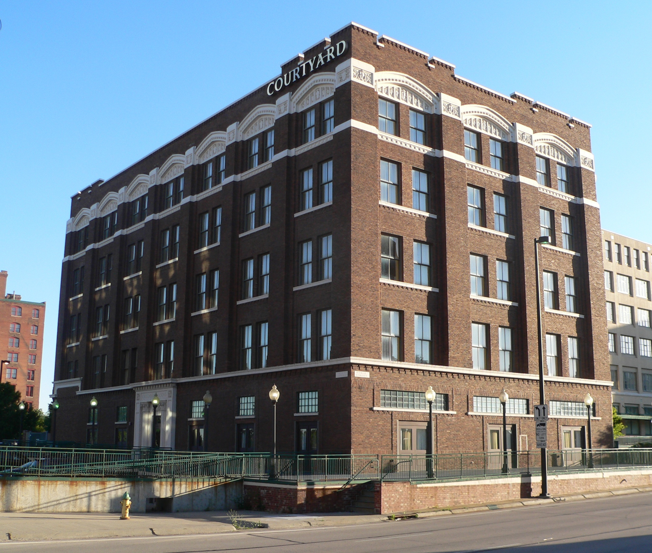 Kirschbraun & Sons Creamery building, located at 901 Dodge Street (southwest corner of 9th and Dodge) in Omaha, Nebraska; seen from the northeast.